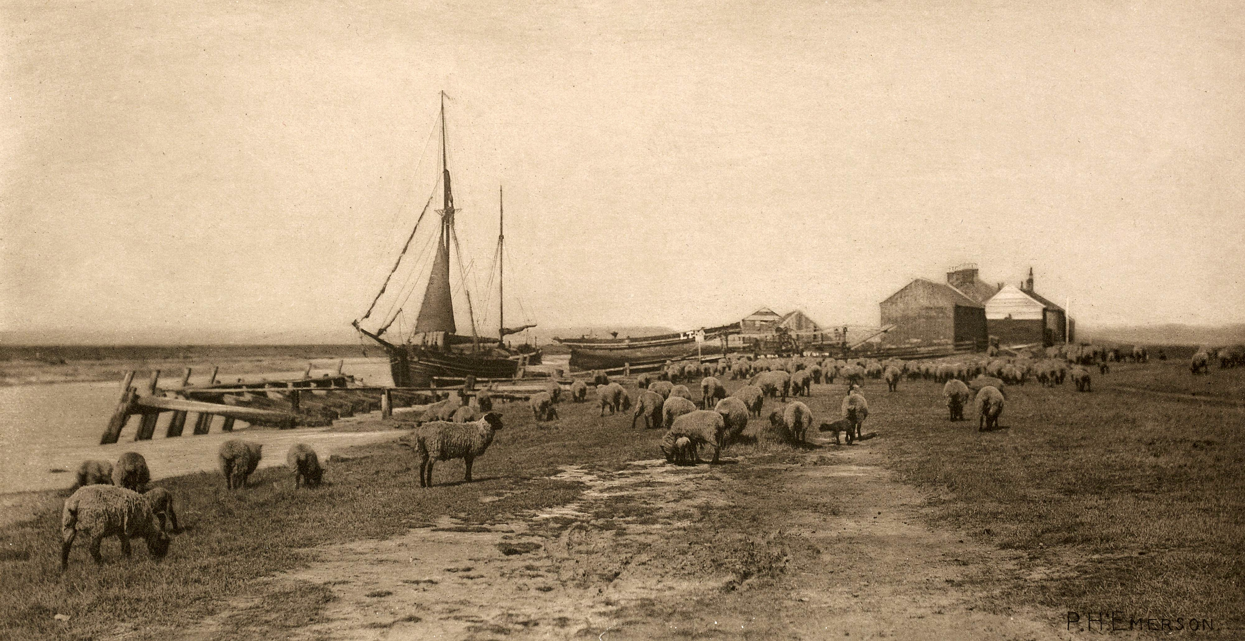 Blackshore, River Blythe, Suffolk by Peter Henry Emerson from his illustrated book 'Pictures of East Anglian Life'. In the book, Emerson describes this scene as follows: "This is Blackshore on the River Blythe - Blackshore, of which we read that once spacious warehouses were erected on its wharf 'for the stowage of nets and other stores, one room of which is capable of holding a thousand tons of salt;' that a dock was made there in 1783, and that in the same year twenty fishing-busses met there for the white-herring fishery. It seems this quay was made in James the First's reign, and must have been the scene of busy life when Dunwich, Walberswick, and Southwold were flourishing with their fisheries; but as the greater places fell to nothingness, so has this little place proportionately fallen into utter decay..."